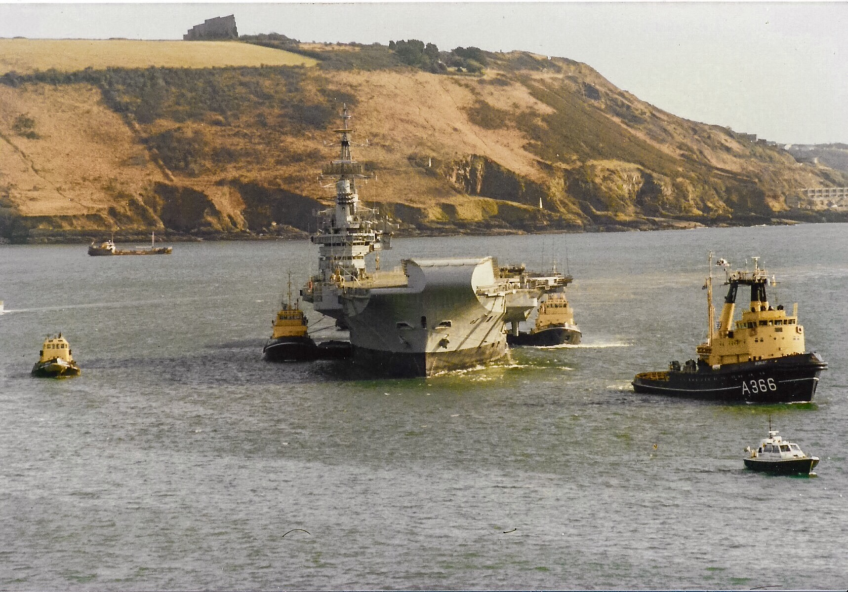 Hermes entered Devonport Dockyard in 1986 to be reactivated and refitted ready for sale and service with the Indian Navy